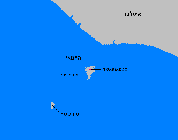 map of Heimaey and Surtsey